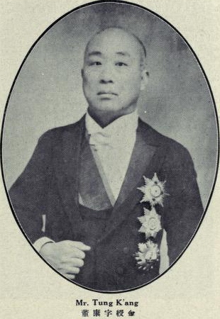 Dong Kang, Shoujing (1867 - 1947)